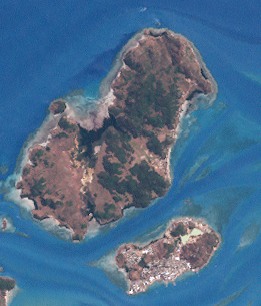 Hammond Island, in the North, and Thursday Island, in the South. Both Islands belong to the Torres Strait Islands, Queensland, Australia